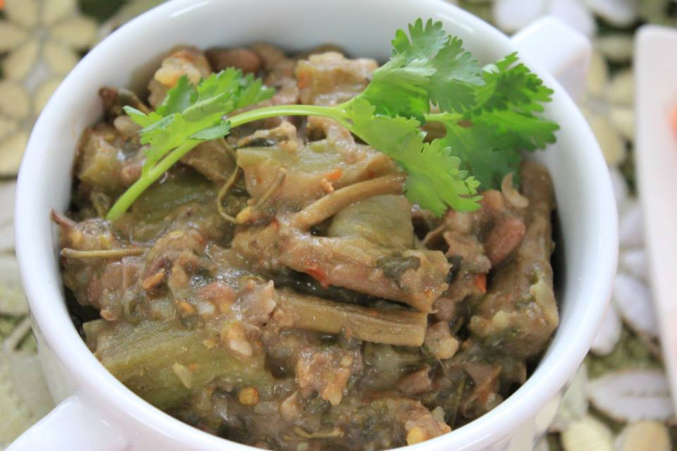 another type of eromba with fermented bamboo shoots, taro as its ingredients.